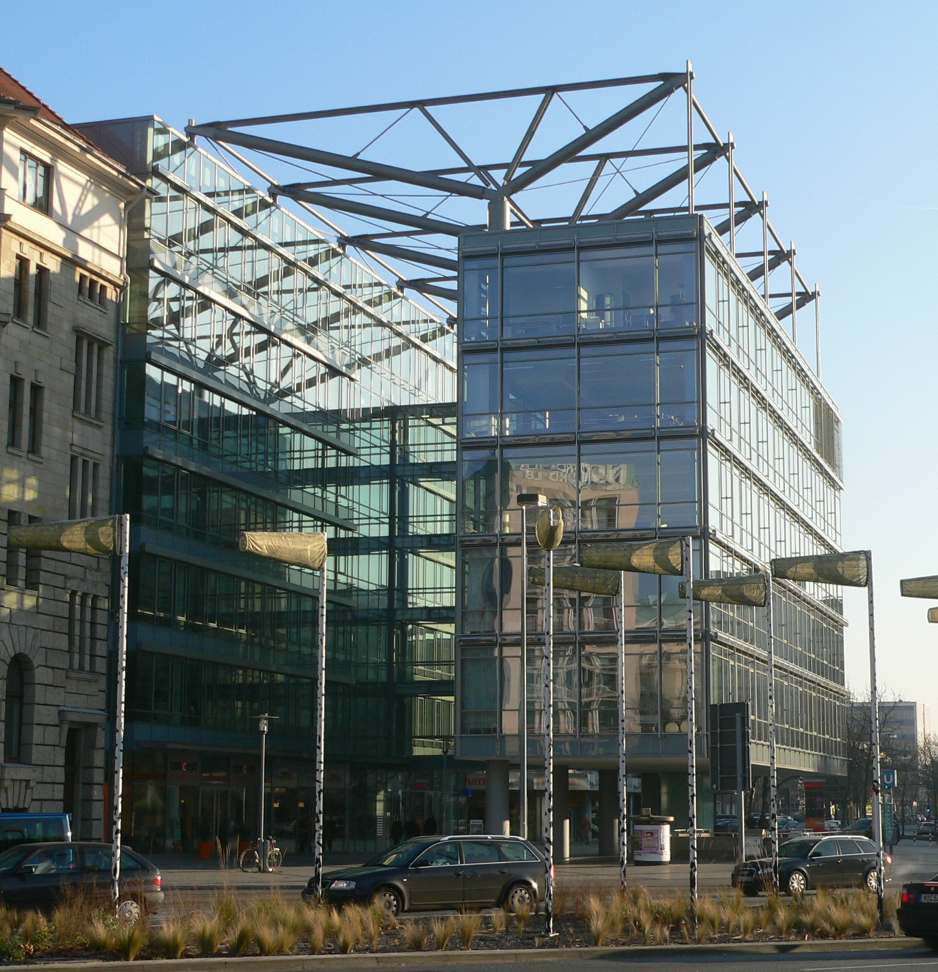 Torhaus, Aegidientorplatz, Hannover, Germany.